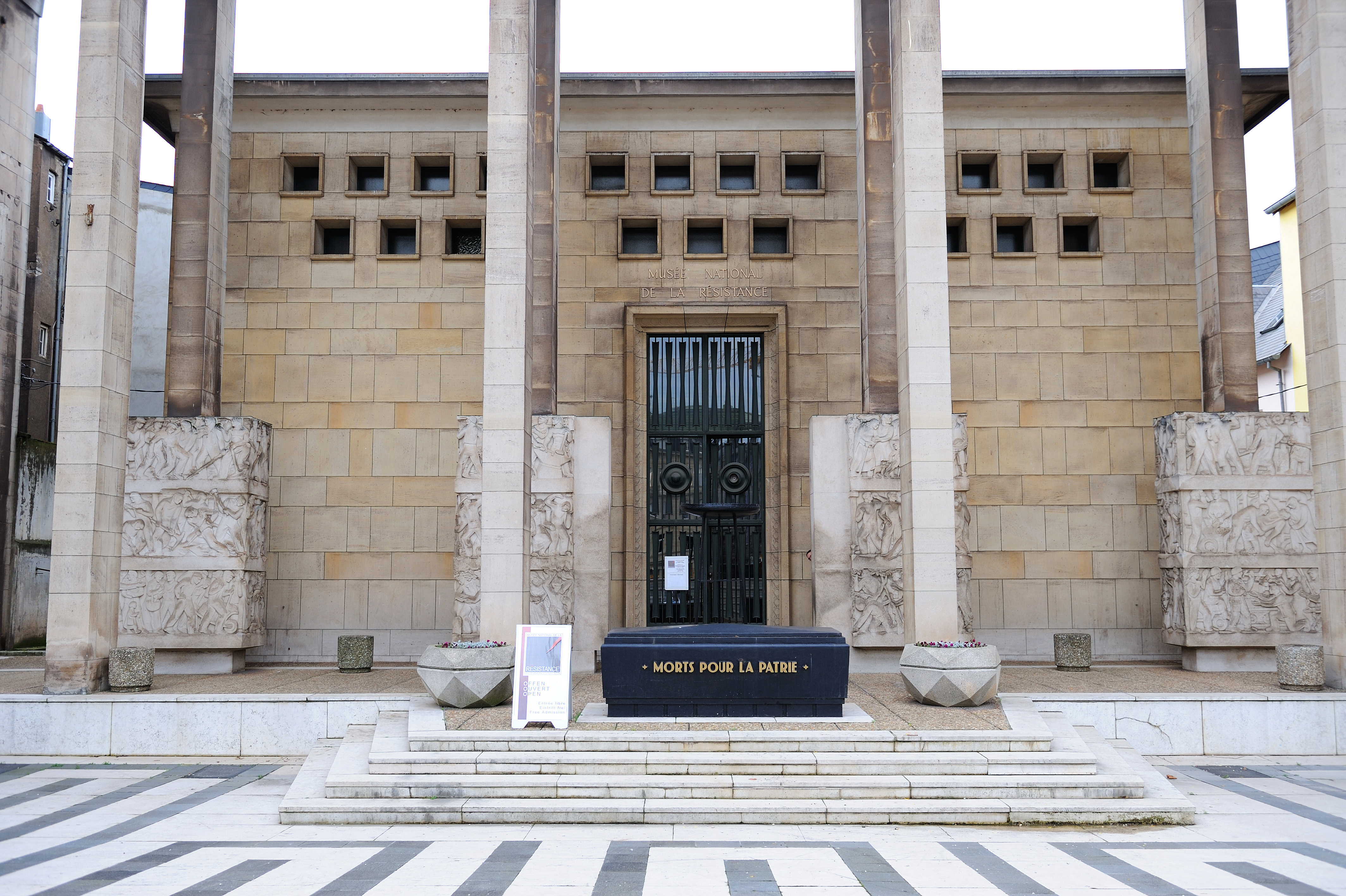 Musée national de la résistance = National Museum of resistance to the Nazi occupation during World War II in Esch-sur-Alzette, Luxembourg